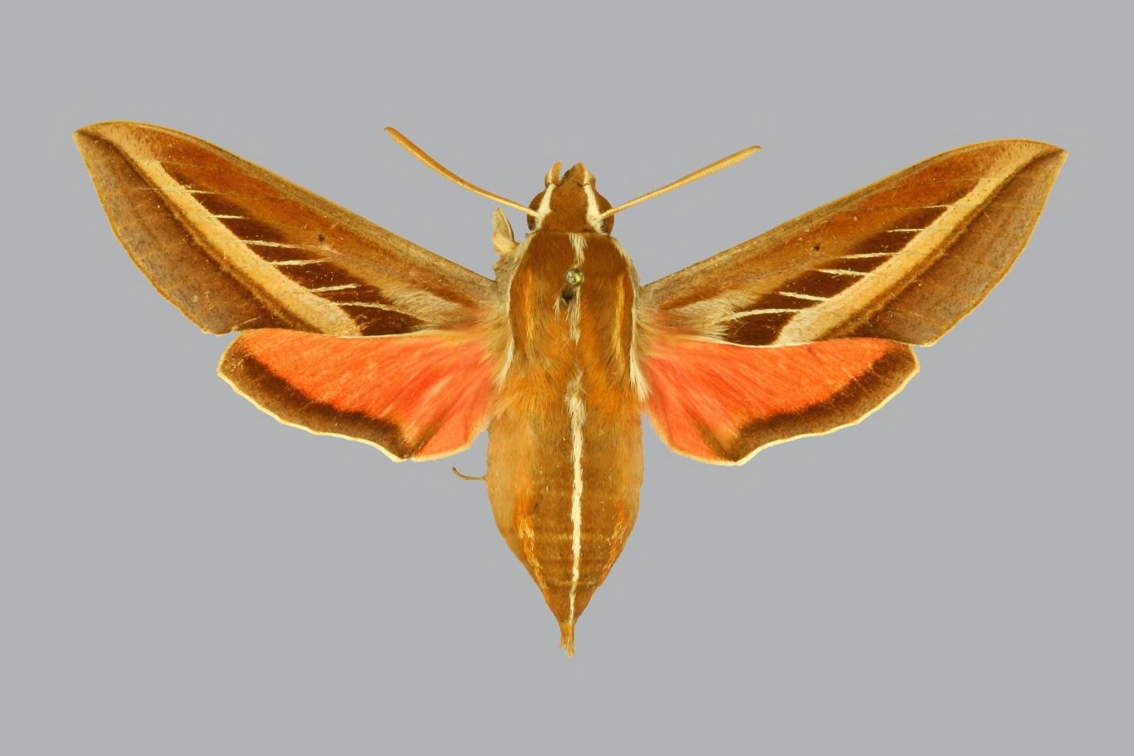 Basiothia schenki, female, upperside. South Africa, Transkei